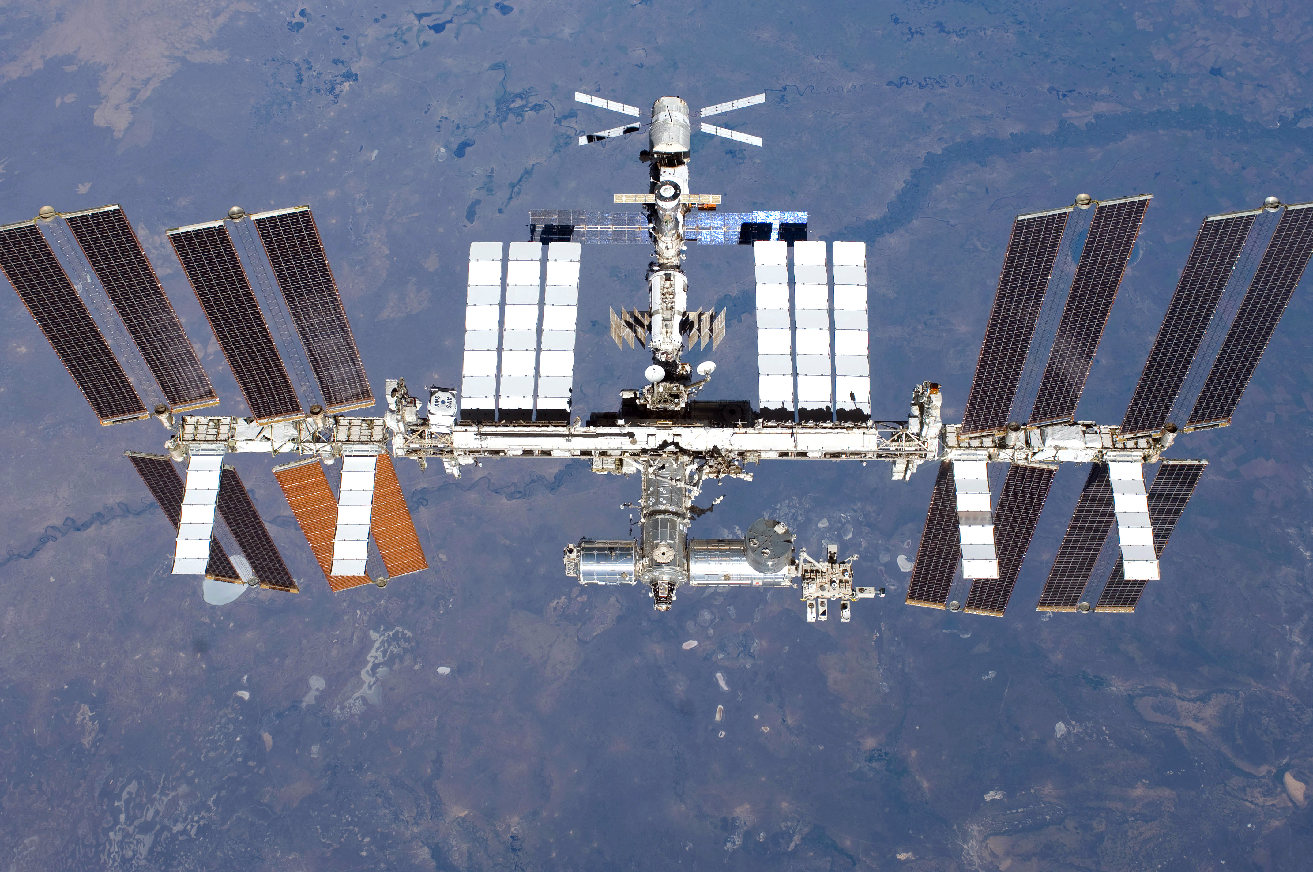 S134-E-010665 (29 May 2011) --- The International Space Station is featured in this image photographed by an STS-134 crew member on the space shuttle Endeavour after the station and shuttle began their post-undocking relative separation. Undocking of the two spacecraft occurred at 11:55 p.m. (EDT) on May 29, 2011. Endeavour spent 11 days, 17 hours and 41 minutes attached to the orbiting laboratory.